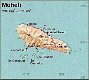 Moheli. From The Indian Ocean Atlas, CIA, 1976.